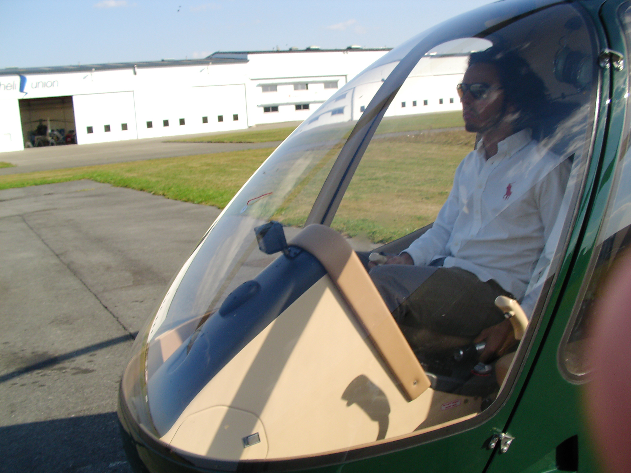 Guimbal Cabri G2 Alexandre VALENTINI inside